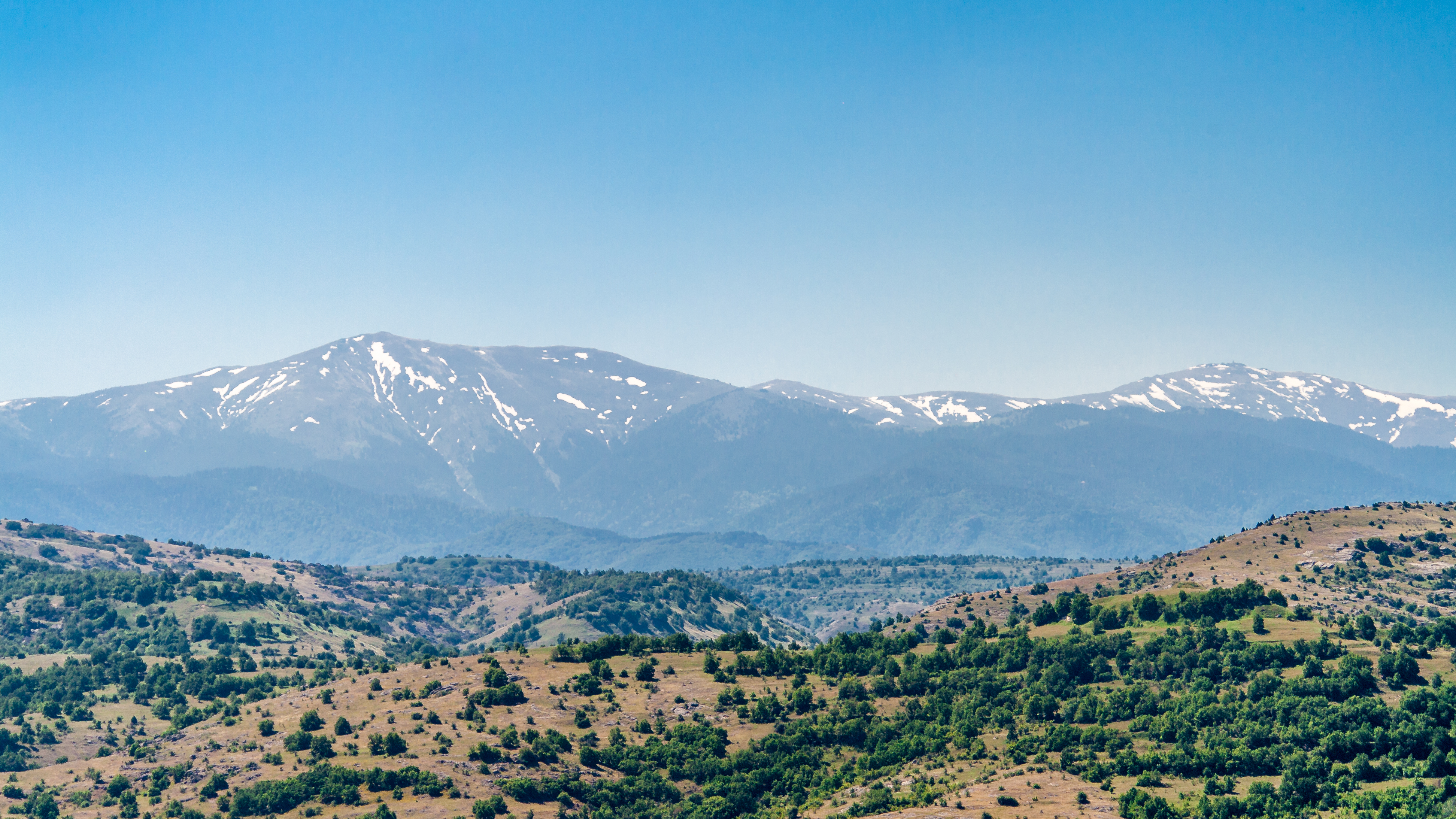 Landscape in Mariovo with mountain Nidže in the background